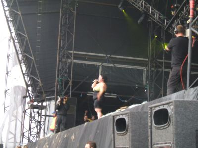 Taken by myself with my digital camera; more than happy to have it used as a visual representation of the festival.